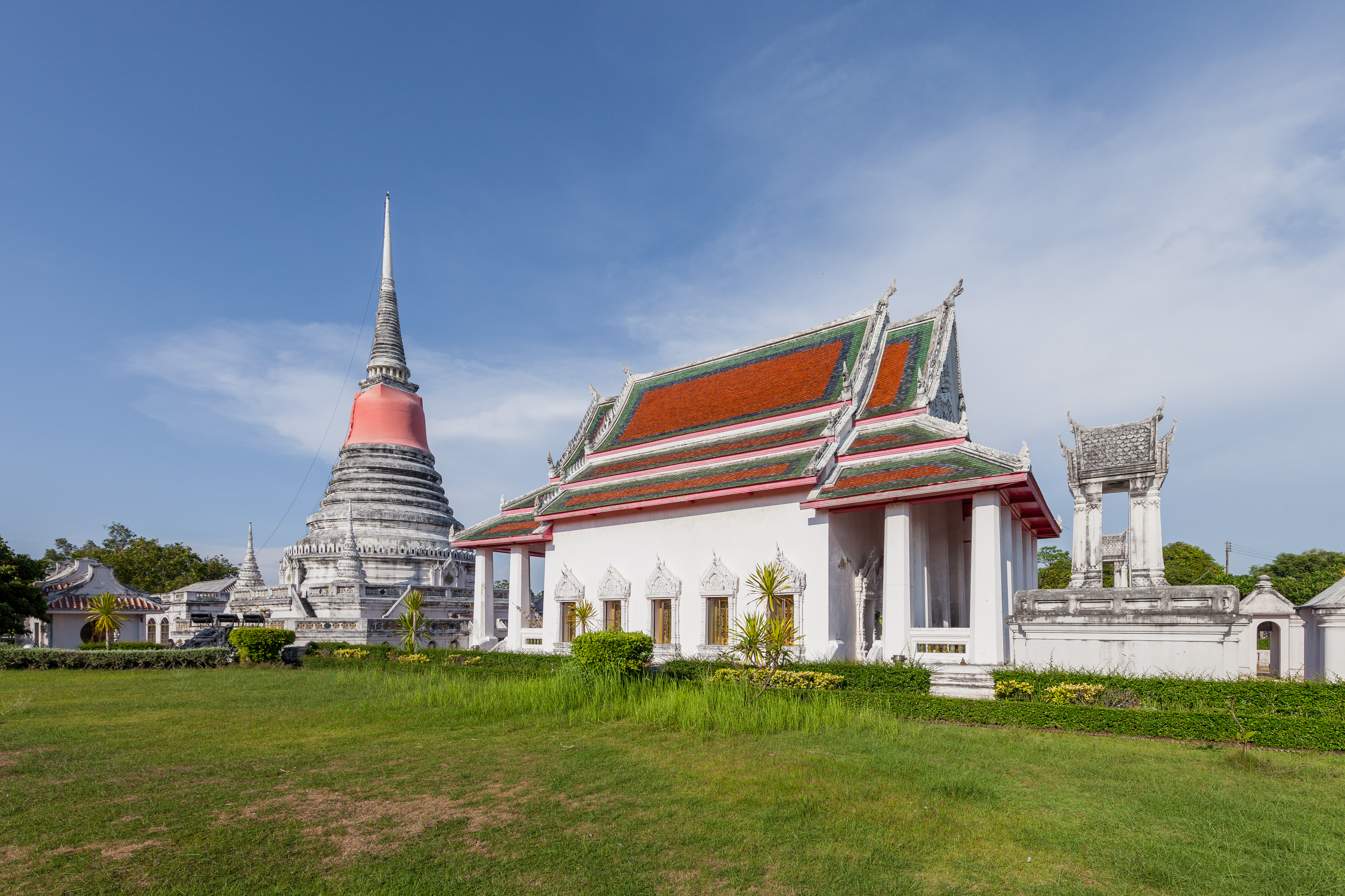 Wat Phra Samut Chedi (or "Phra Samut Chedi Klang Nam"), Phra Samut Chedi District, Samut Prakan Province, central Thailand.